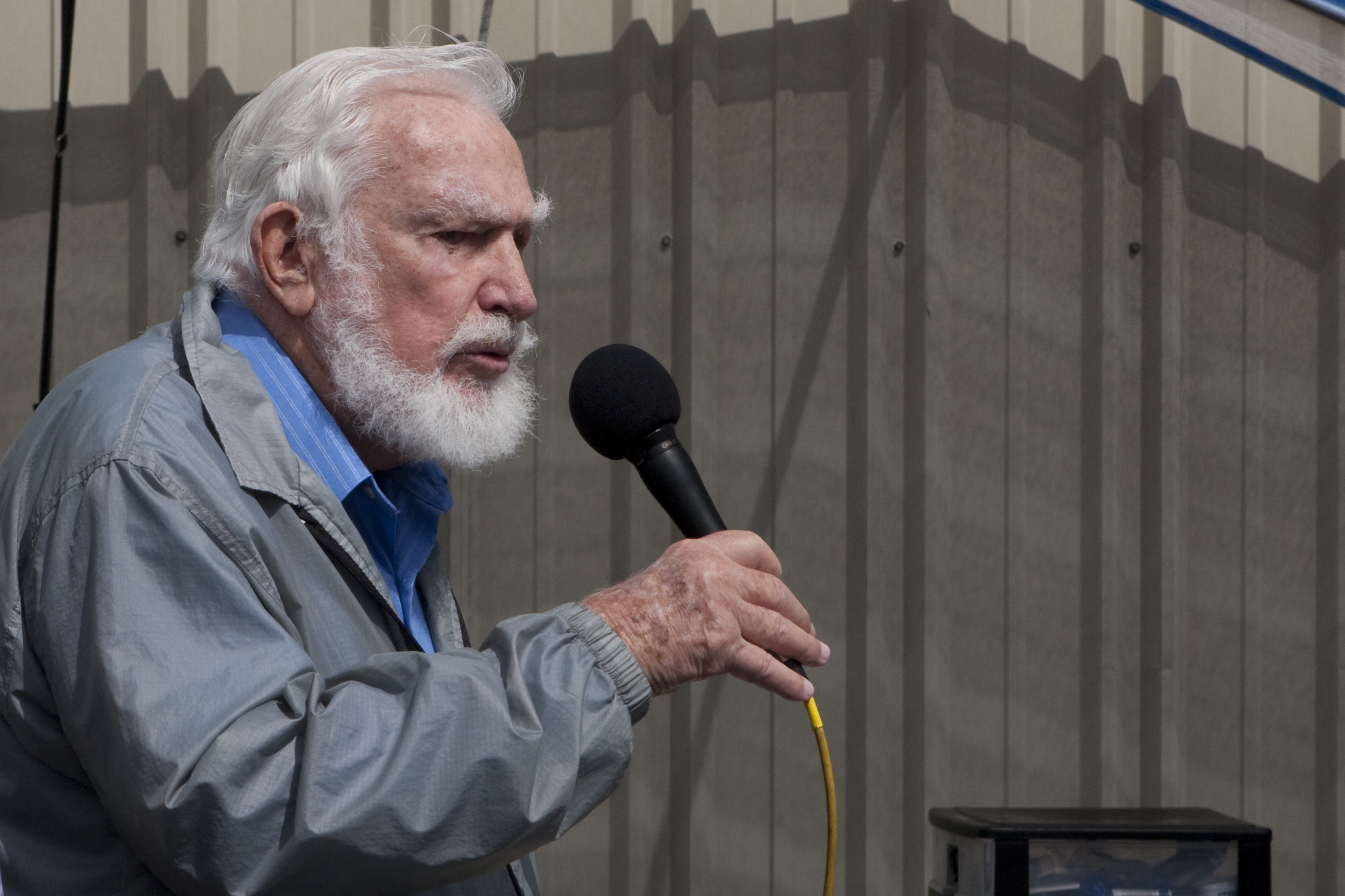 Martin Litton, environmentalist, author.